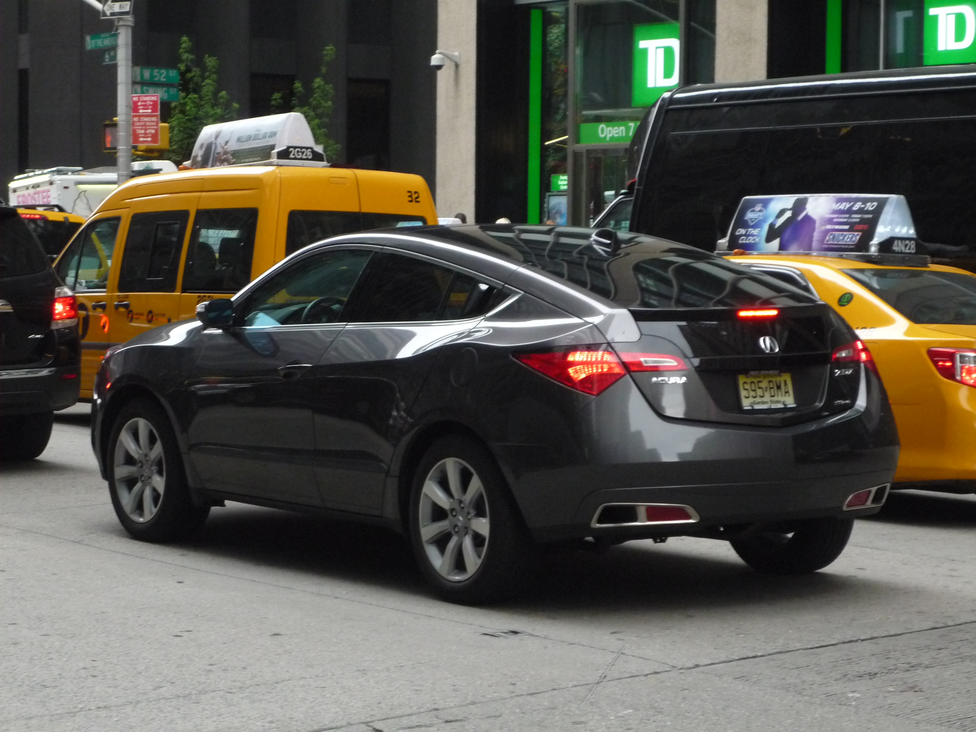 Acura only built the ZDX for 4 years (2009 - 2013). It was designed and built entirely in North America. Based on the MDX, the ZDX never sold very well. It is, in fact, quite a rare car: in 2010, the car's most successful year, just 3,259 units were sold in the USA. 1,564 were sold in 2011, 775 in 2012, and 361 in 2013. You're more likely to see a 2009 - 2013 Bentley Continental than you are a ZDX.